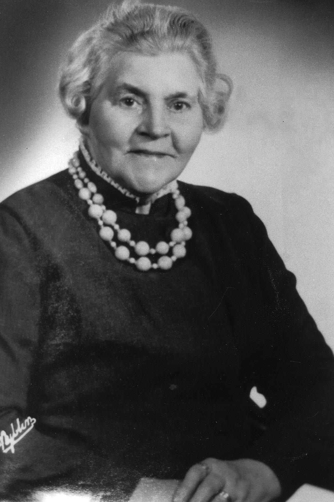 Photograph of the Finnish scholar Ella Kitunen (1890–1988).